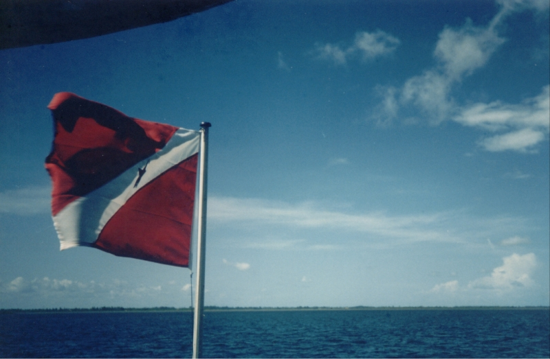 Pará State's flag seen from a boat at Tapajós river (1990).